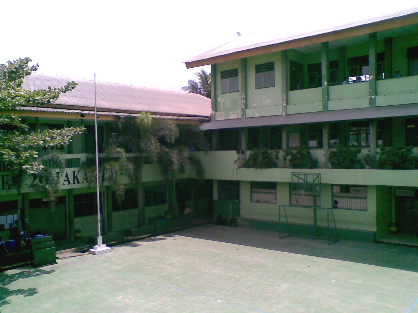 PGRI 20th Vocational High school Jakarta 1.1